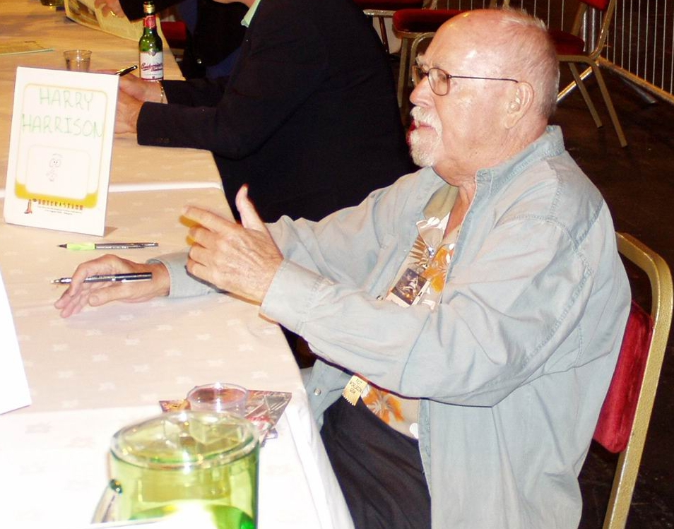 Harry Harrison at Worldcon 2005 in Glasgow, August 2005. Picture taken by Szymon Sokół.